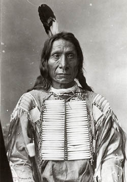 Red Cloud. Photo courtesy of South Dakota State Historical Society. Taken by Charles Milton Bell while Red Cloud was on a delegation in 1880.